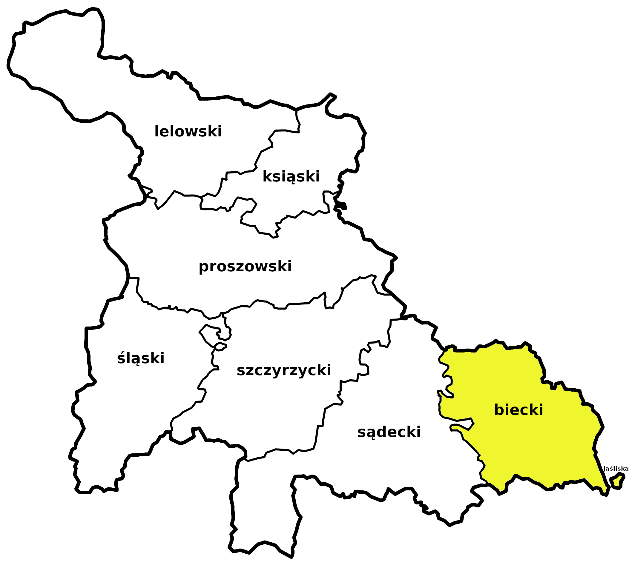 Biecz County of Kraków Voivodeship about 1600